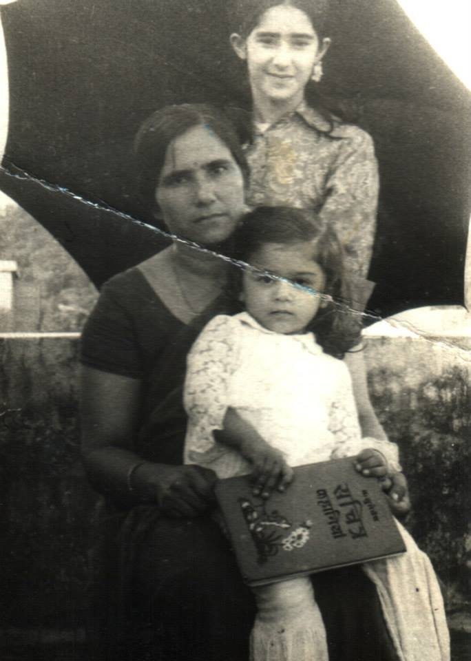 Photo taken in Chidlhood